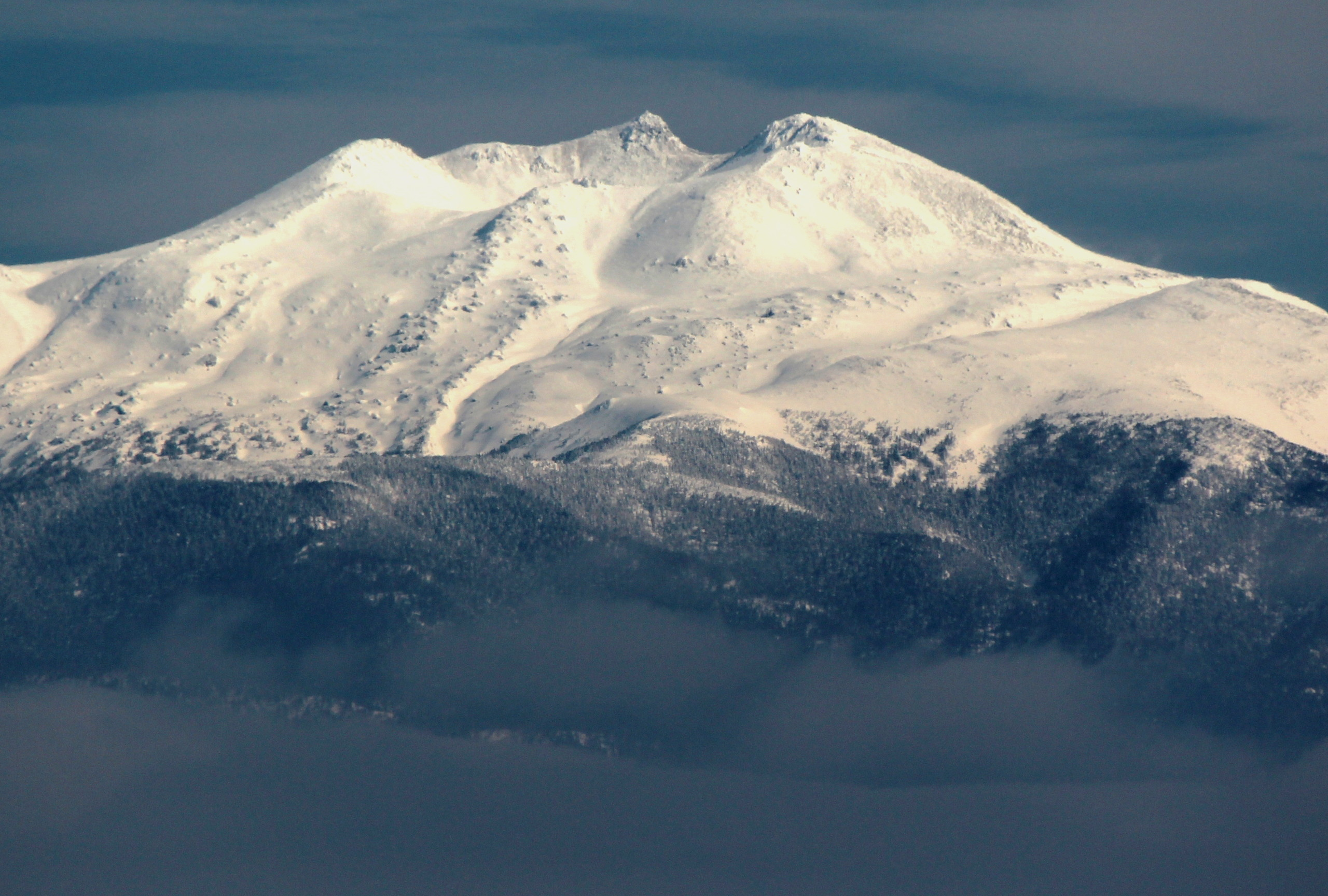 Mount Norikura from Mount Kurai